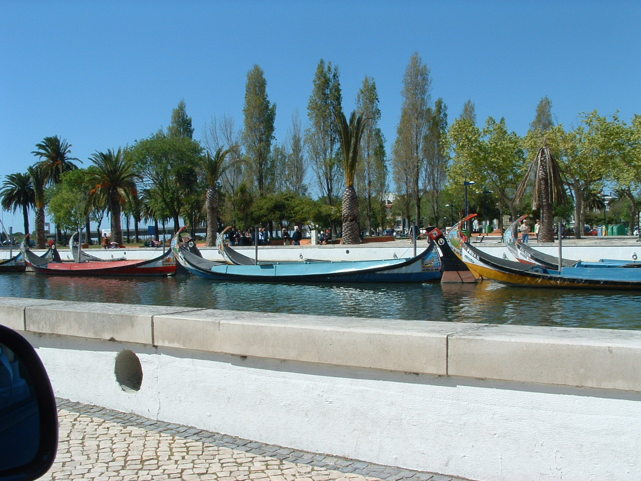 Moliceiro is a boat used at Aveiro for collecting the submerse vegetation of the Ria de Aveiro (haff-delta). It is not used for fishing purposes.